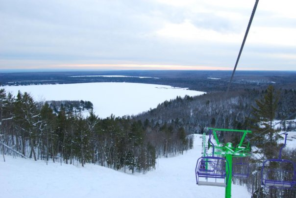 Looking over Lac La Belle from the chairlift at Mount Bohemia